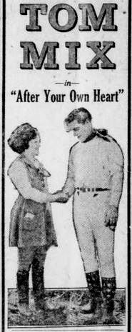 Newspaper advertisement for the American western film After Your Own Heart (1921) with Ora Carew and Tom Mix, on page 5 of the October 1921 Duluth Herald.